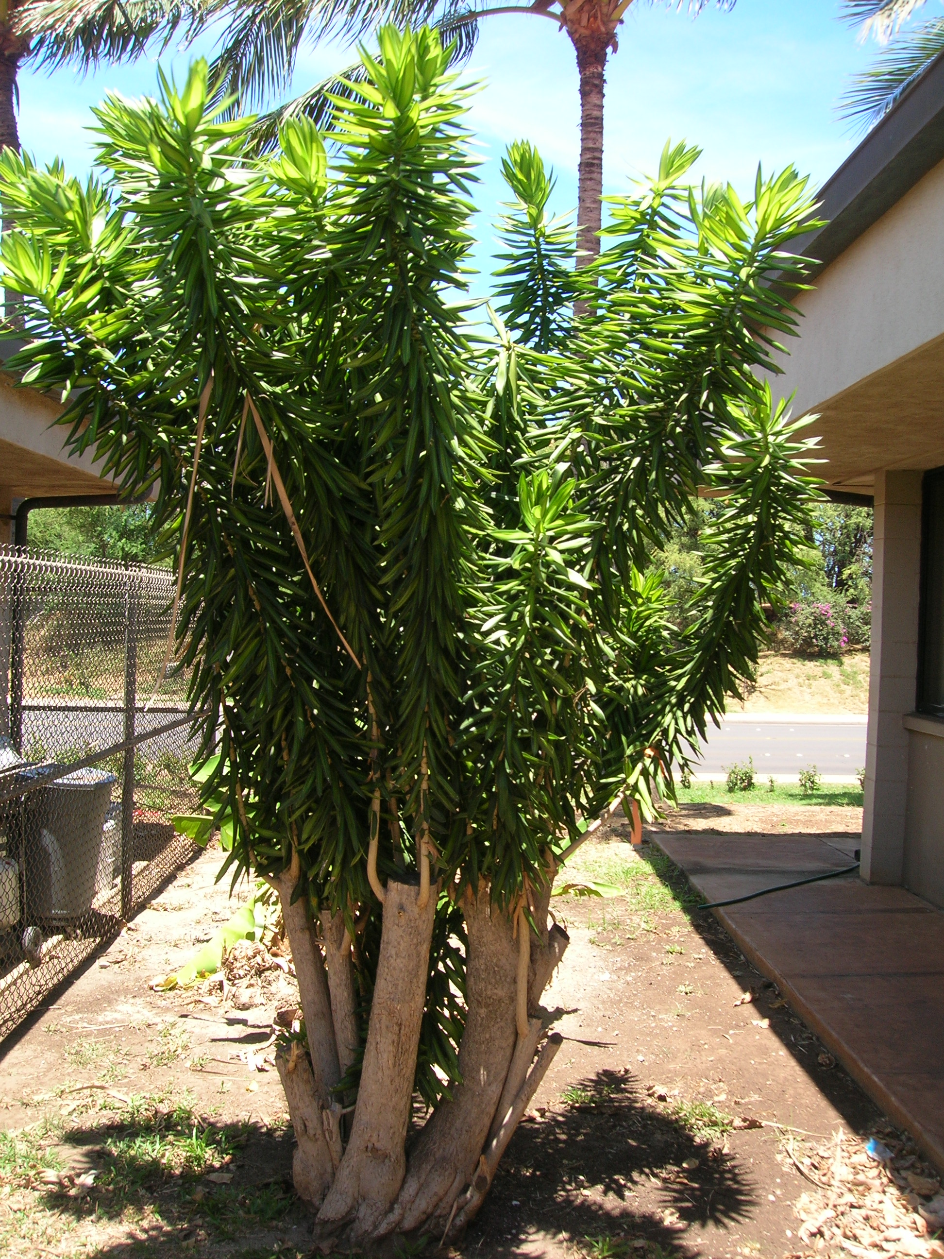 Dracaena reflexa (habit). Location: Maui, HDOA Kahului